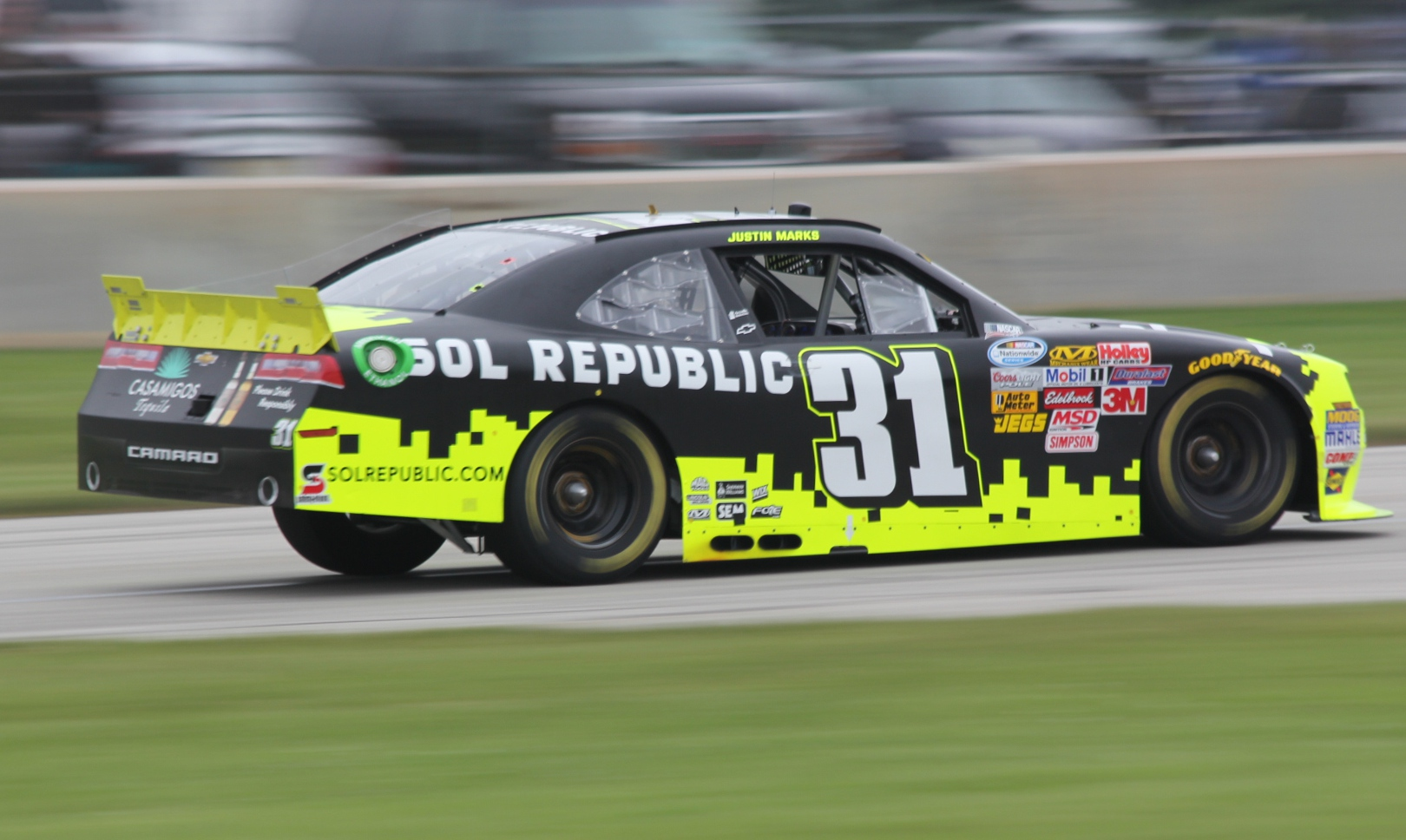 The passenger side of Justin Marks Nationwide car during the 2014 Gardner Denver 200 at Road America. Taken racing in turn 13.